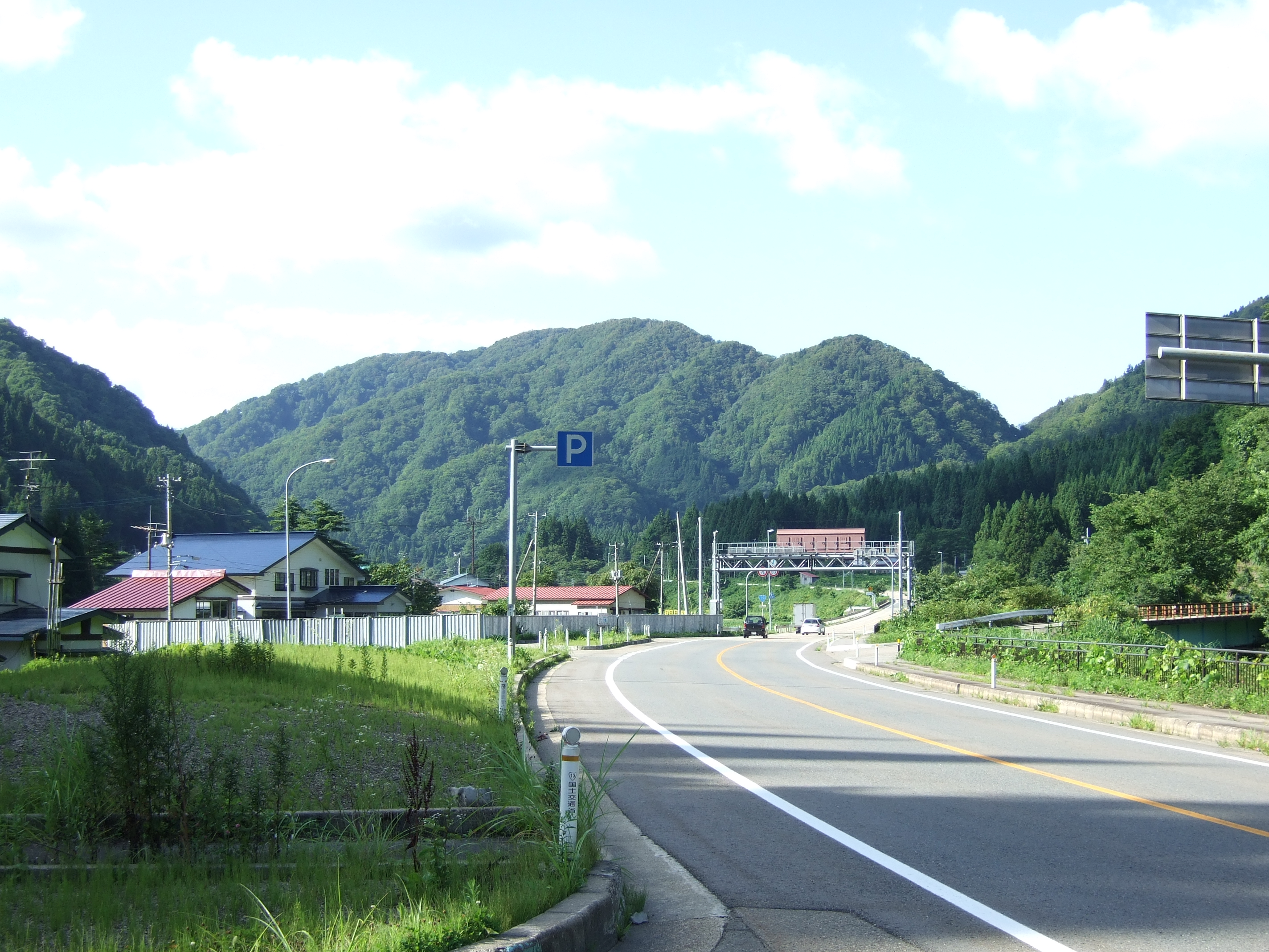 Ogati-touge (pass), via Usyuu-kaidou (Route 13) between Mamurogawa, Mogami district, Yamagata and Yuzawa, Akita, Japan. Photo from Mamurogawa.